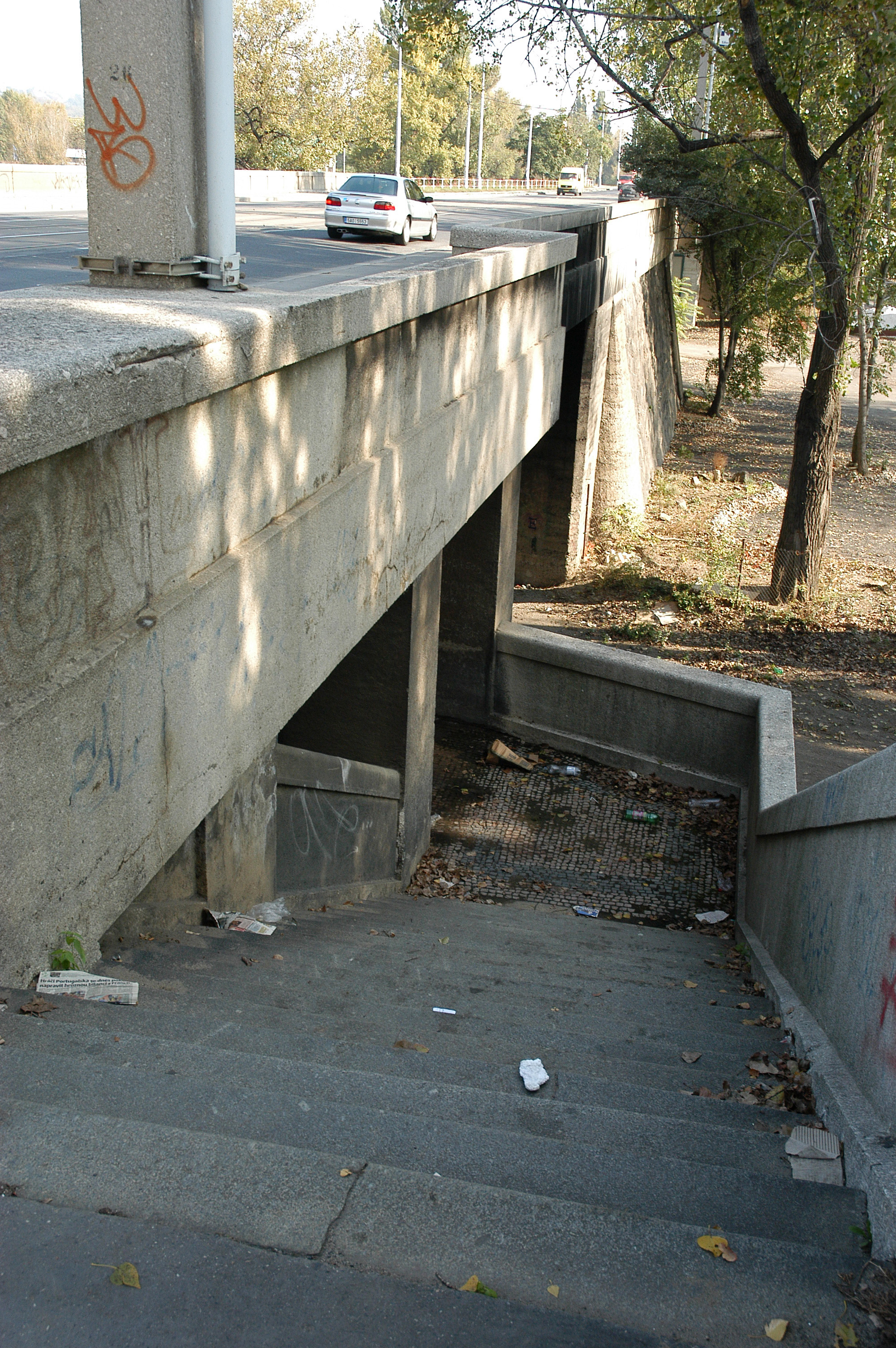 A staircase at Libeň Bridge (Libeňský most) over the Vltava River in Prague, Czech Republic. Autor: Petr Vilgus=User:Slimejs Licensing Self_GFDL_and_cc-by-sa-2.5